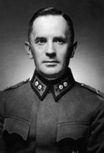 Kalervo Loimu, Knight of the Mannerheim Cross #158